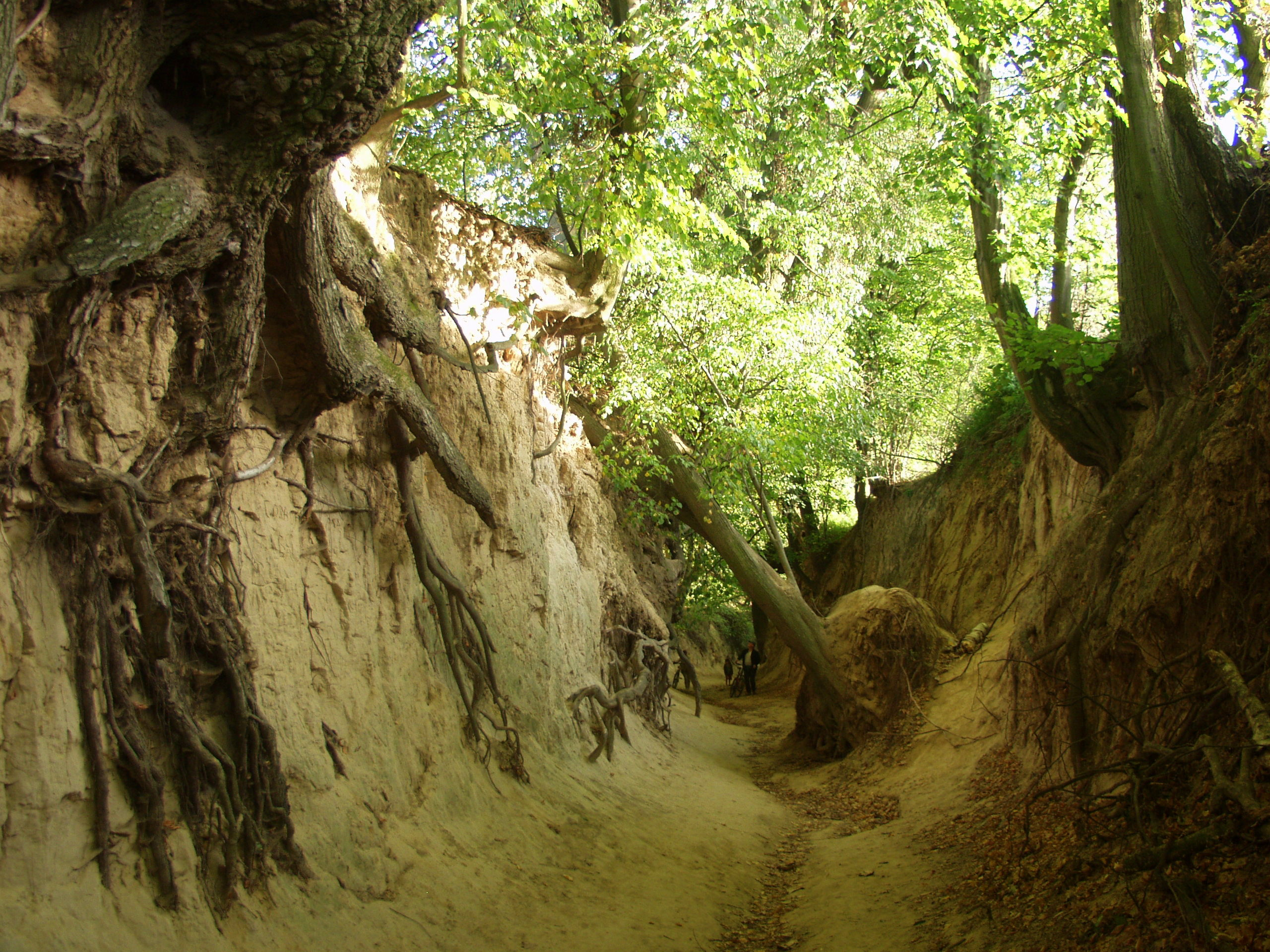 Korzeniowy road gully in Kazimierz Dolny blocked by tree